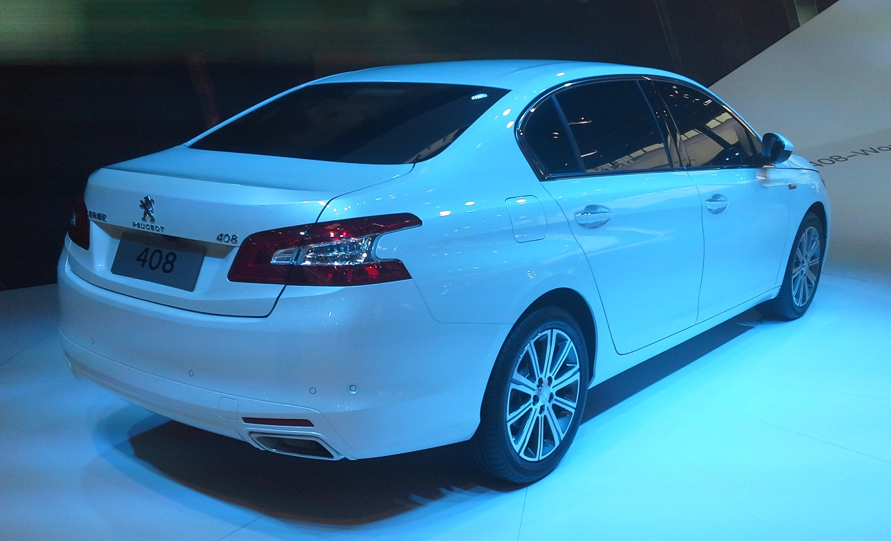 Peugeot 408 II photographed at the Auto China 2014, Beijing, China.